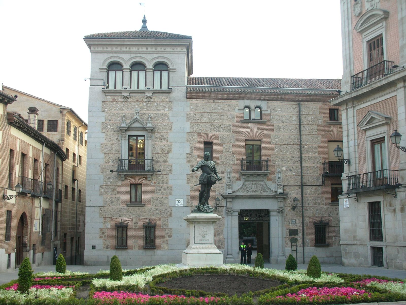 Plaza de la Villa (square) in Madrid (Spain). At the centre, Monument to Álvaro de Bazán. In the background, Casa de Cisneros (building).